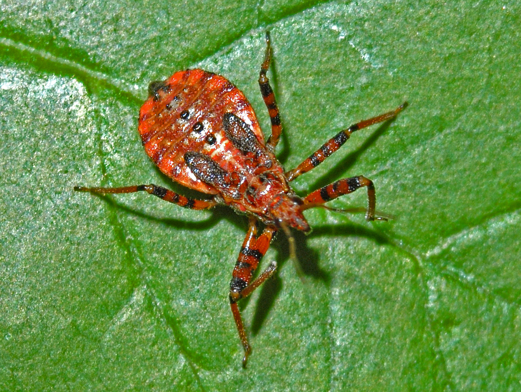 Sphedanolestes cingulatus. Nymph. Piani di Praglia, Genova, Italy